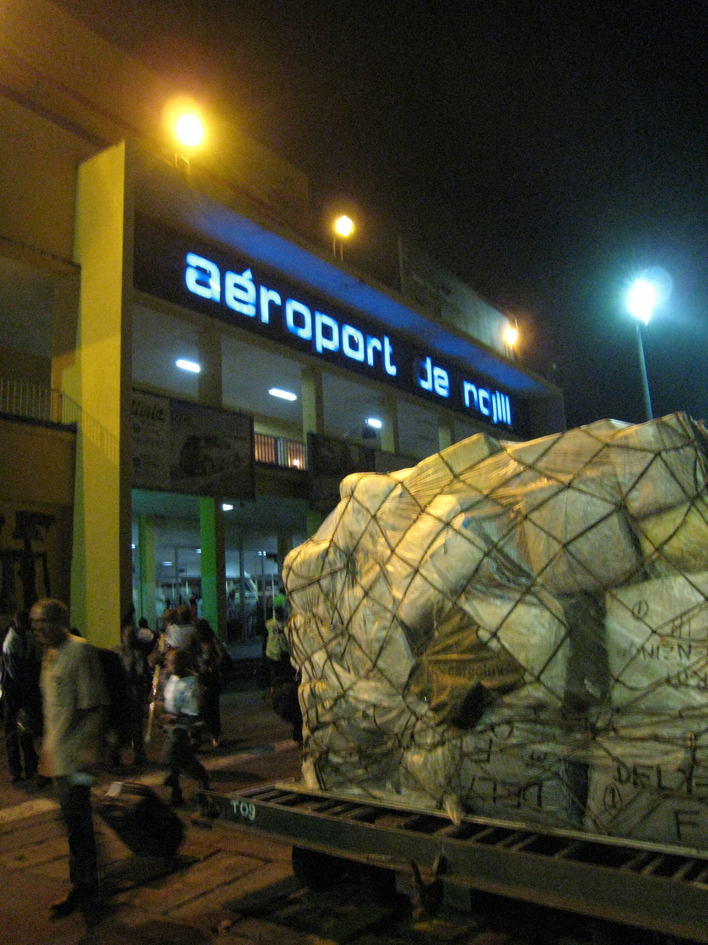 Kinshasa international Airport at night